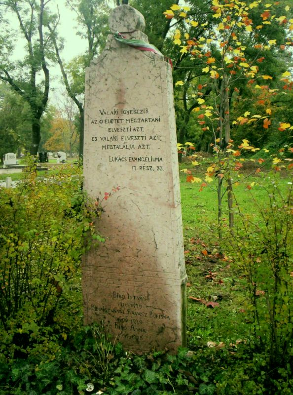 Grave of István Bibó in Óbuda Cemetery